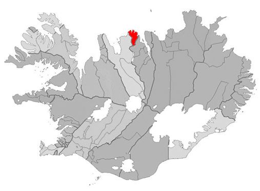 Based on Municipalities of Iceland.png.